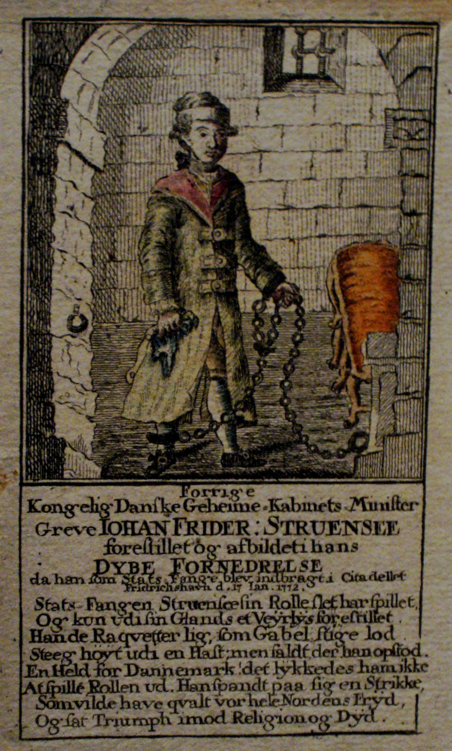 Johann Friedrich Struensee chained in a prison cell of Copenhagen citadel. 1/17 1772